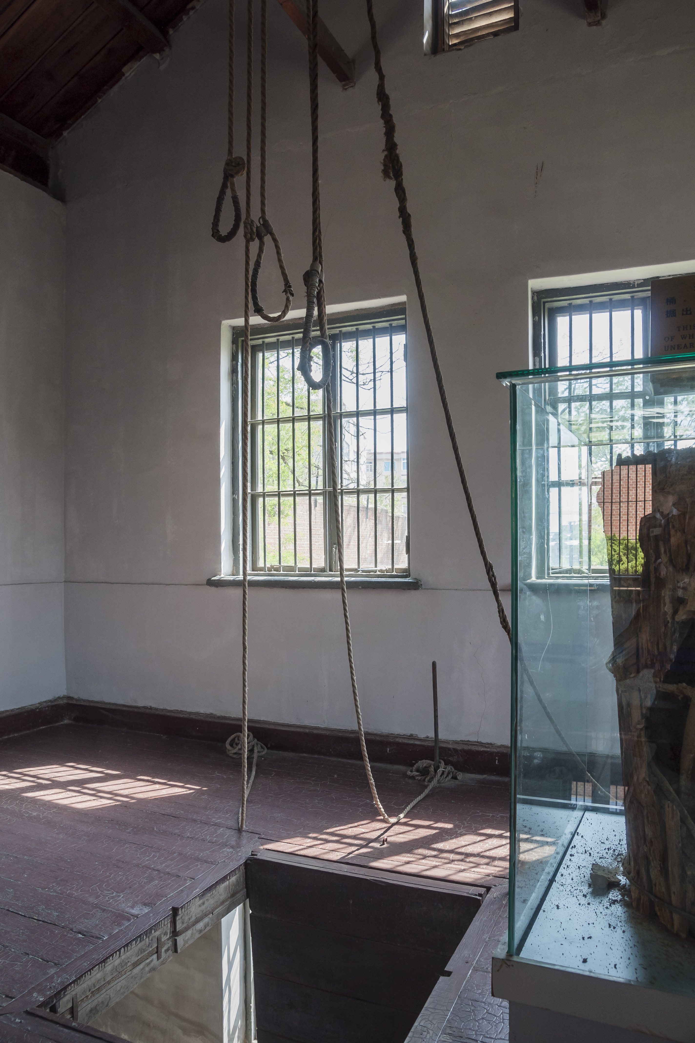 Lüshunkou, Liaoning, China: Former Gallow room of the former Russian-Japanese Lüshun Prison; after hanging the prisoners, the bodies were put into wooden barrels (as seen at the right border of the photo).